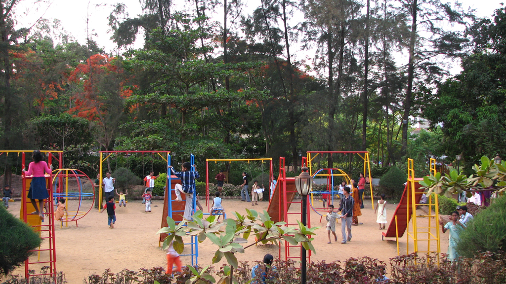 Nilesh Sutar